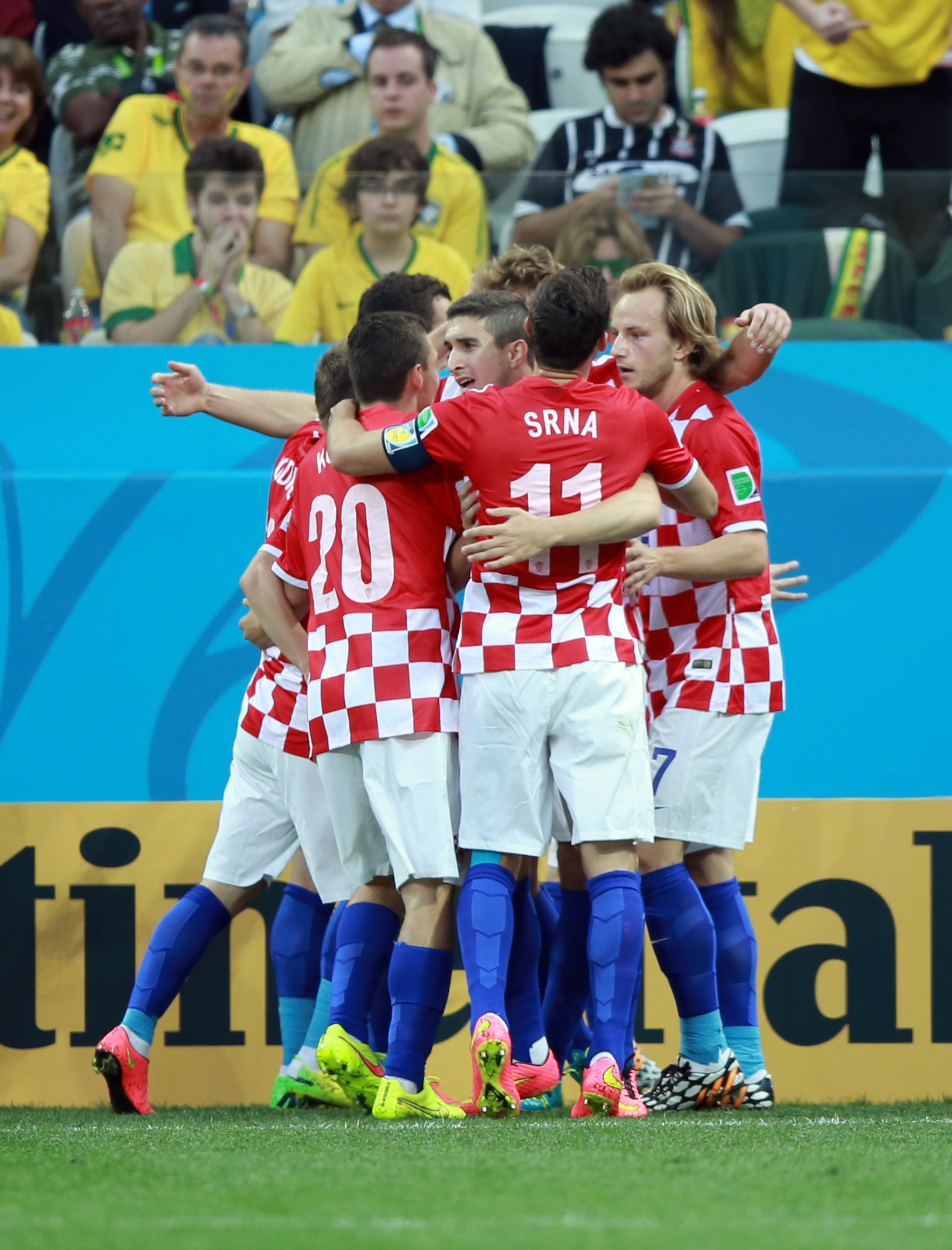 Brazil and Croatia match at the FIFA World Cup 2014-06-12